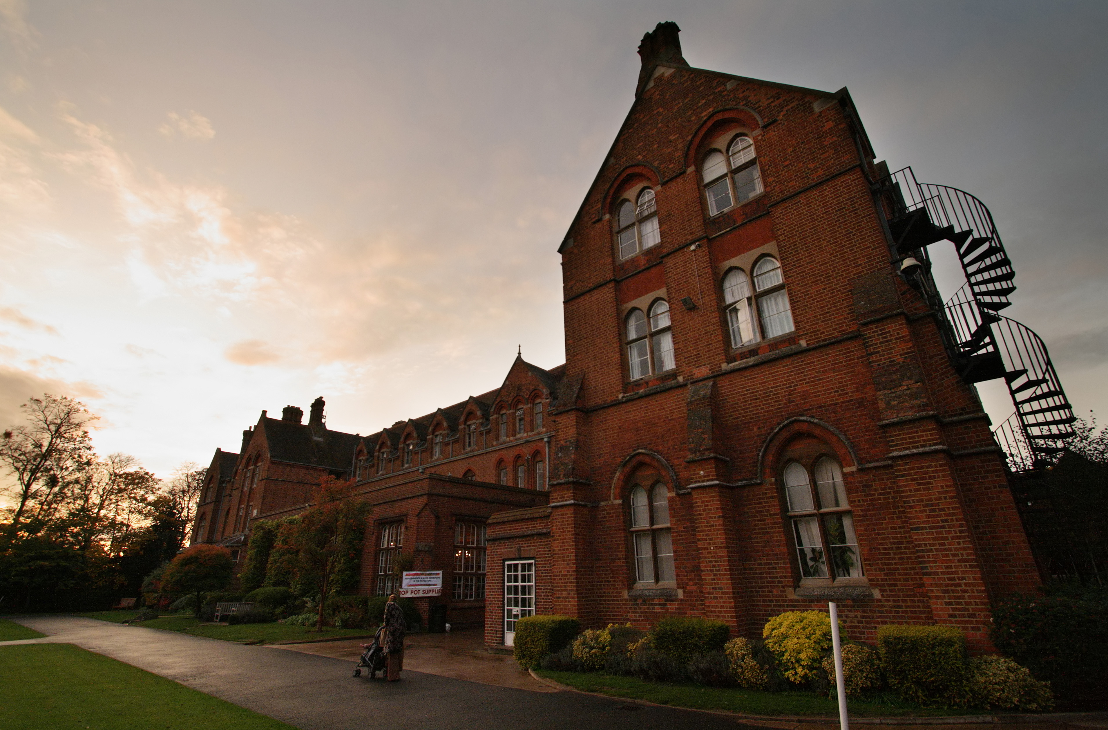 Apsley House, Quad side of the school.